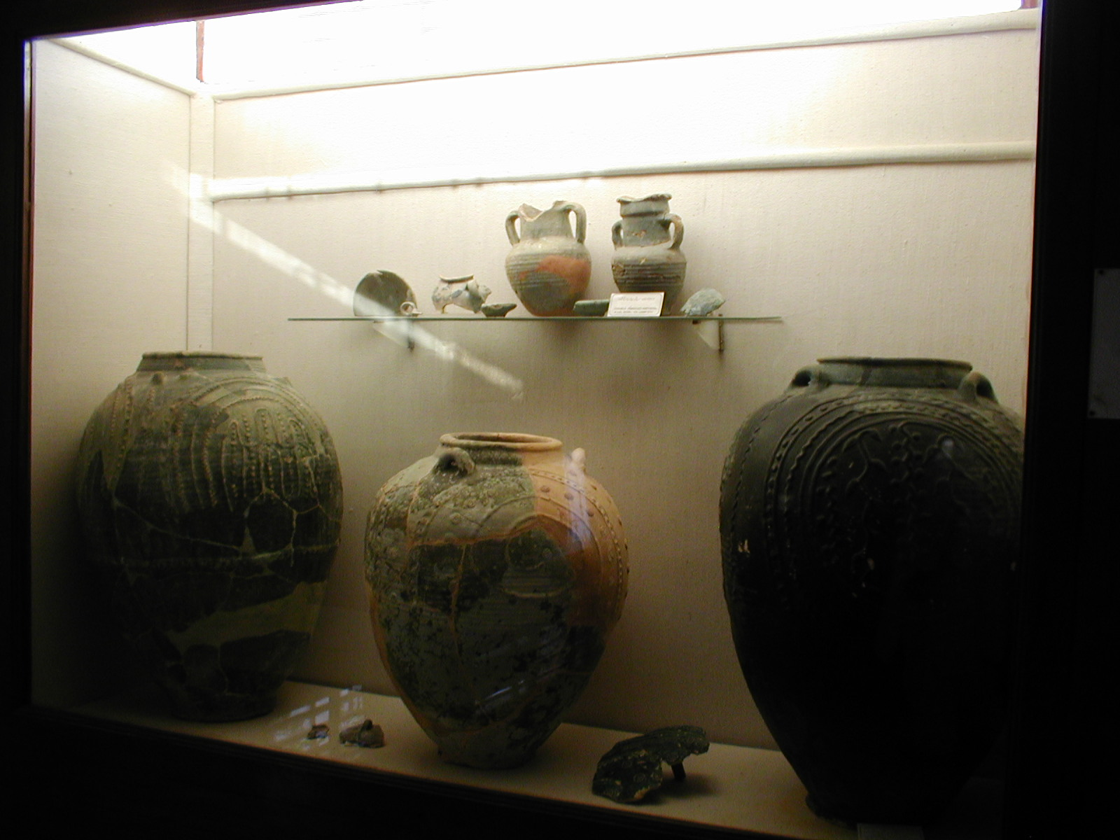 I (Waqas) took this picture on my visit to Bhambore museum in October 2005.